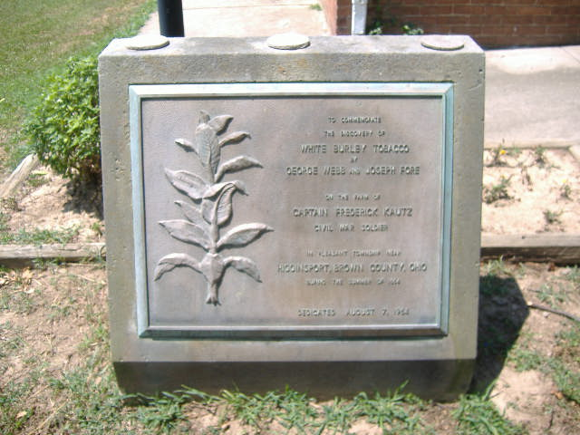 White burley tobacco monument dedicated on August 7, 1964 and located at the Ohio Tobacco Museum in Ripley.